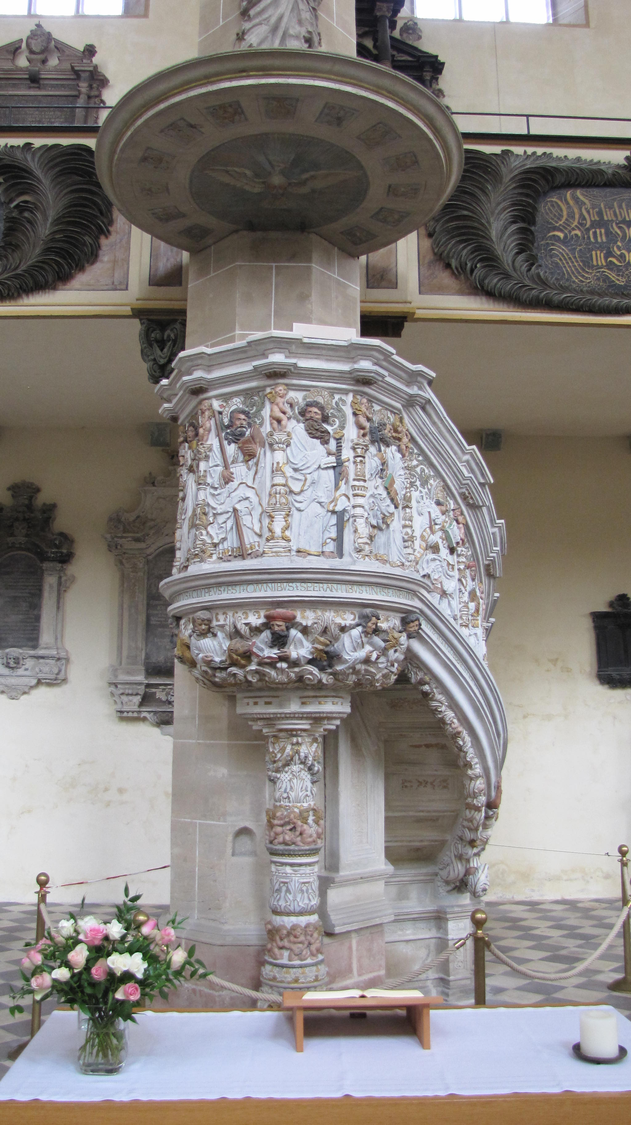 Interior of Dom zu Halle: Pulpit